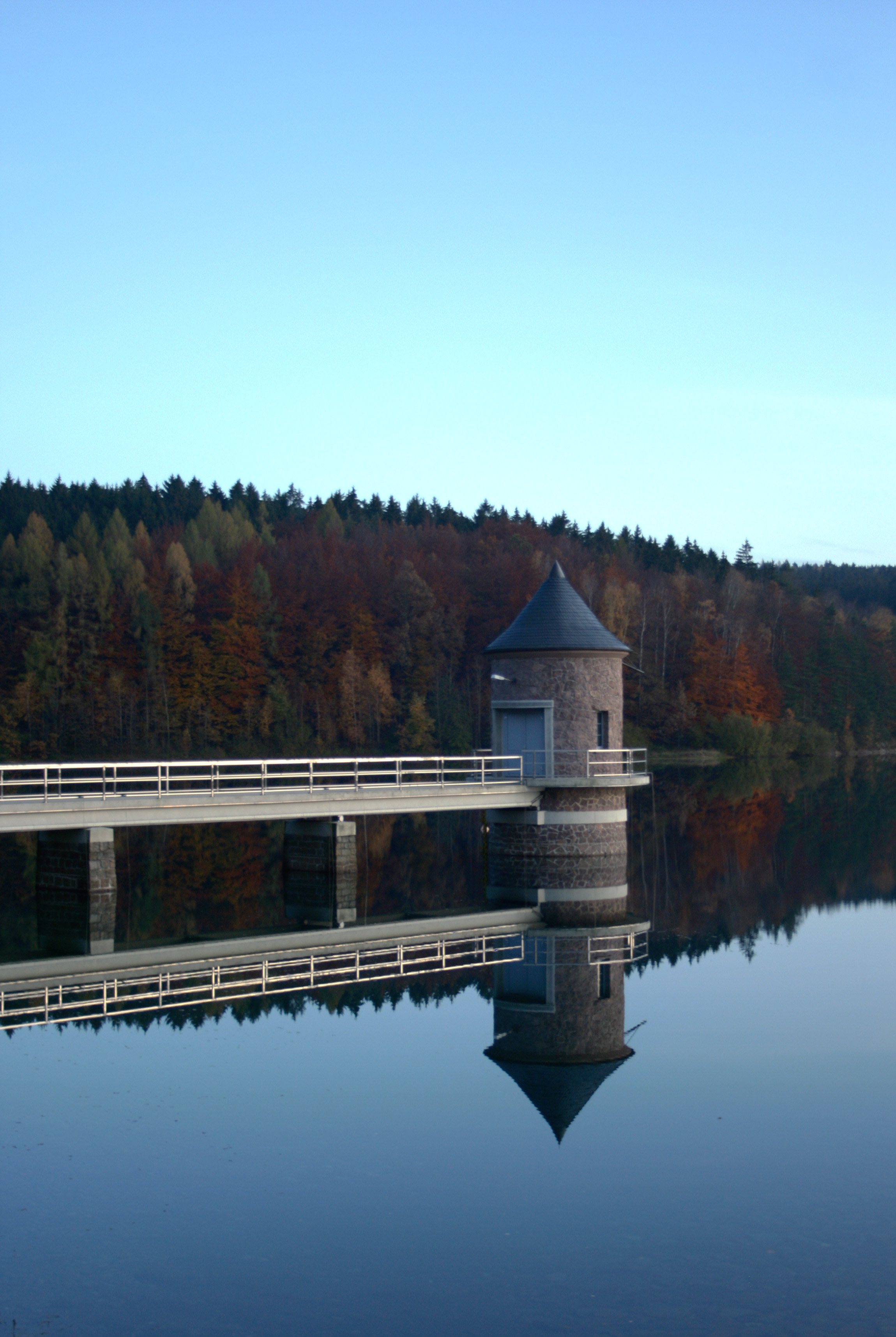 intake tower at the Querenbachtalsperrre near Stollberg / Erzgebirge